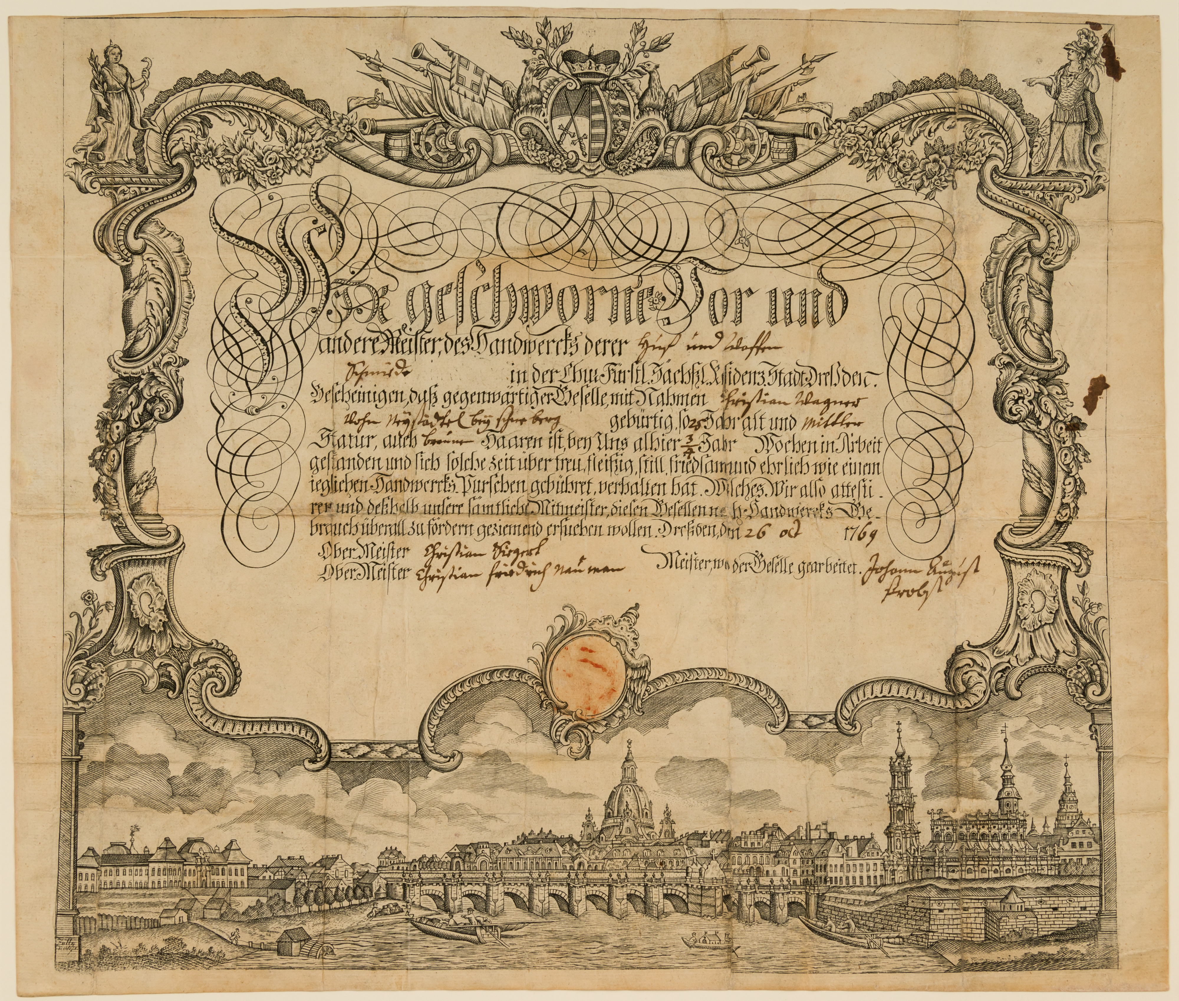 German, Dresden; Engraving; Works on Paper-Miscellaneous